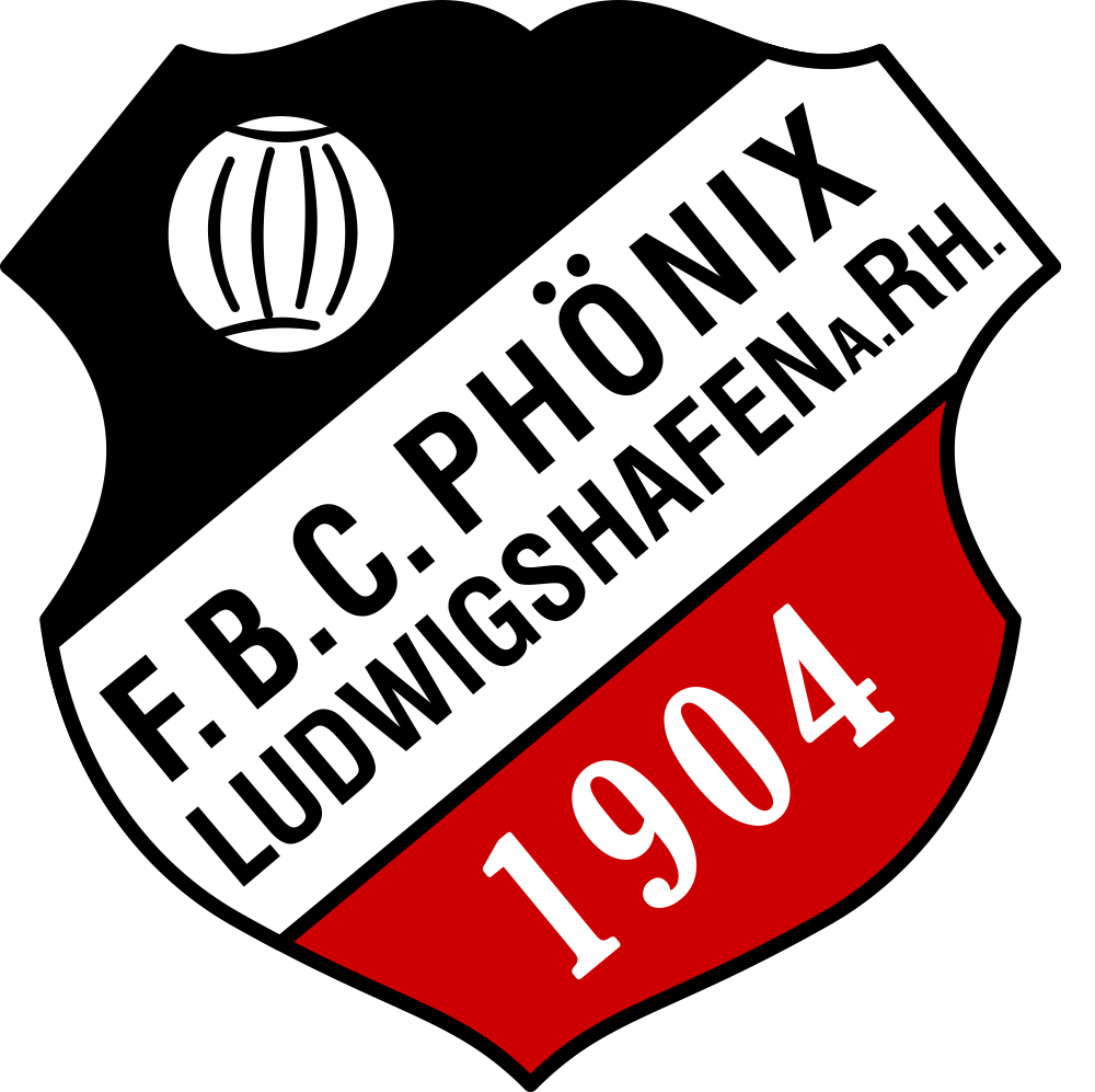 Logo of former german footballclub FC Phönix Ludwigshafen (1904 - 1937)